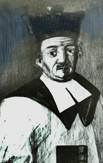 Martin Eisengrein kath. Priester und Theologe (1535-1578)